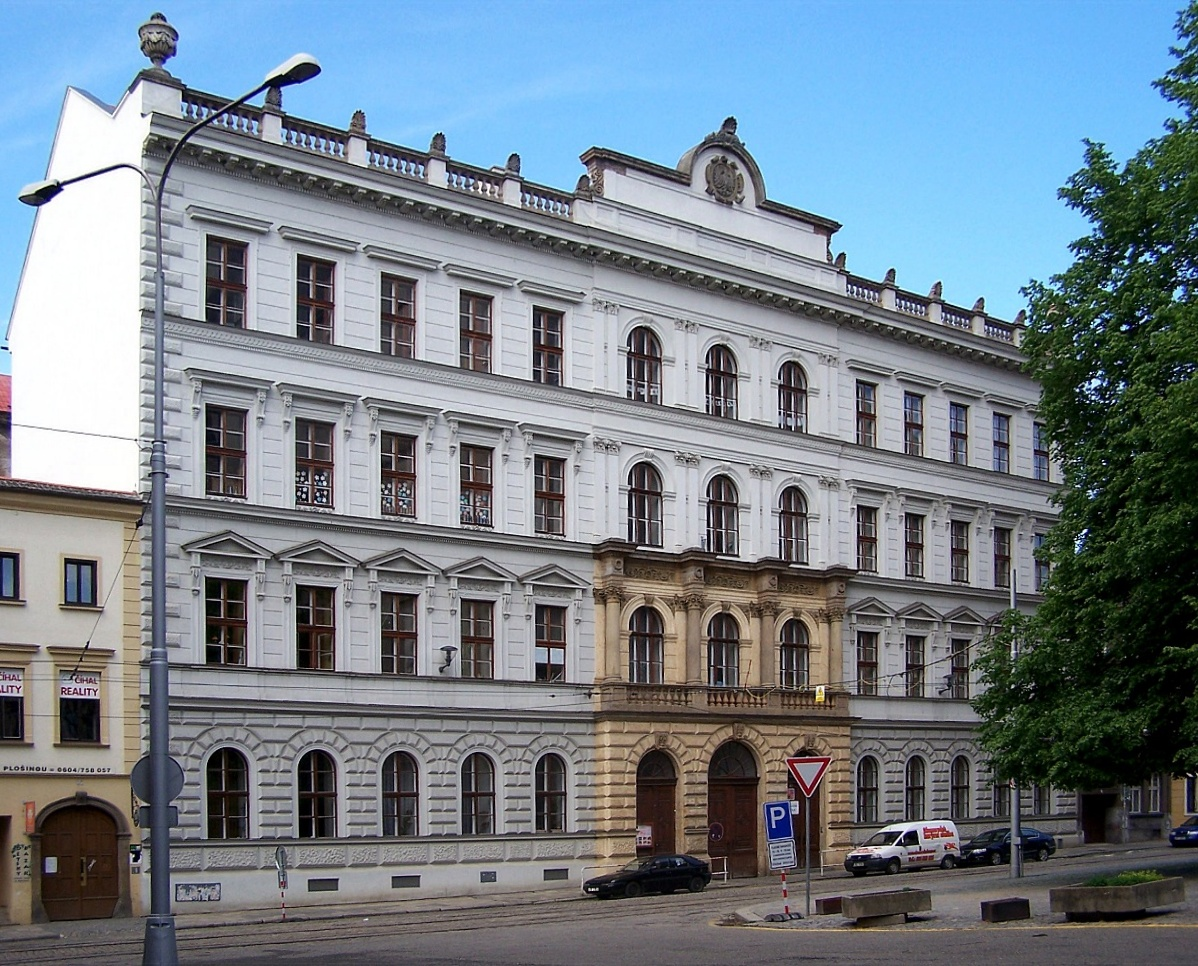 Neorenaissance building of Comenium School in Olomouc, the Czech Republic